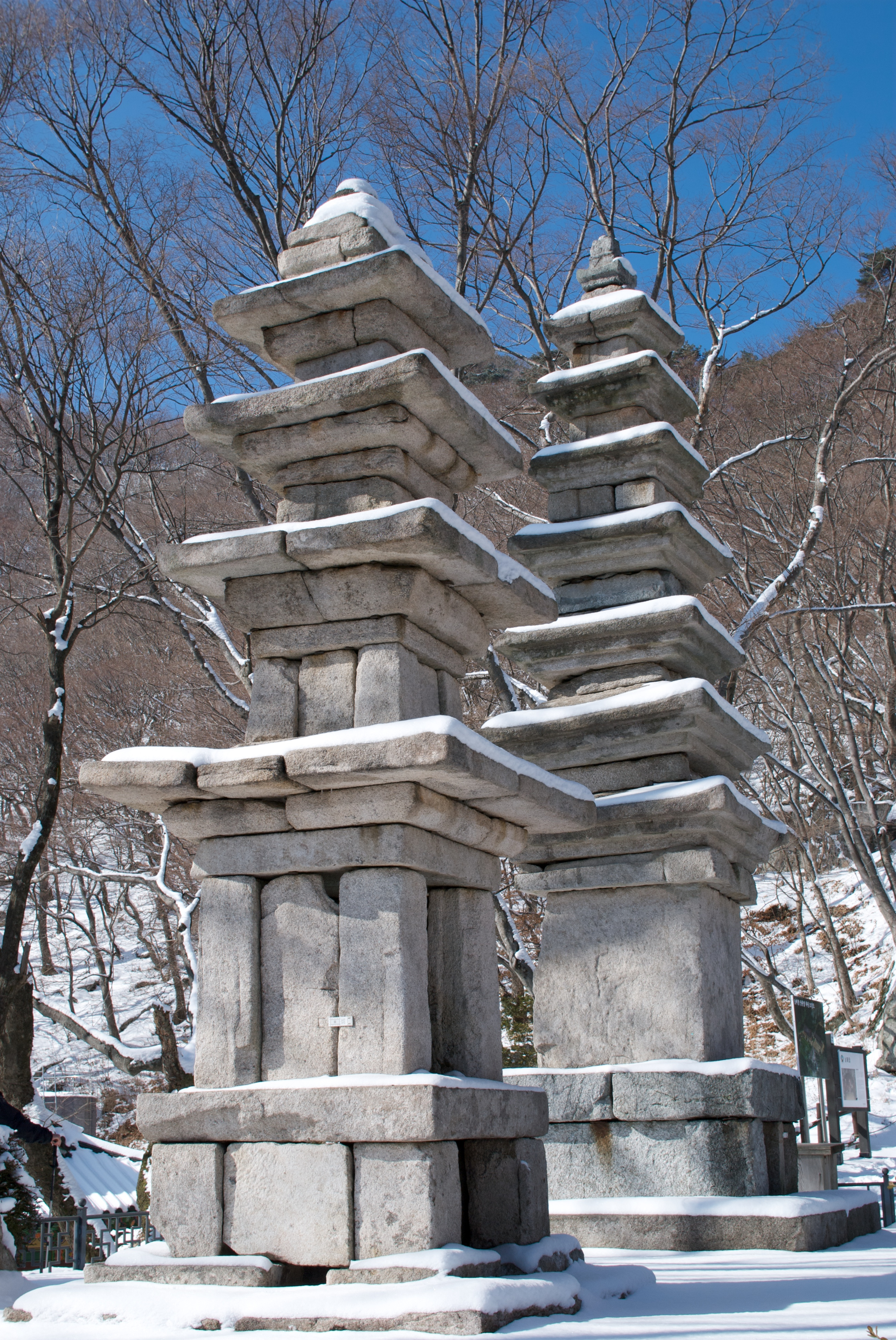 Photograph of the twin stone pagodas collectively called "Nammaetap" at the mountain of Gyeryongsan in the South Chungcheong Province of South Korea.